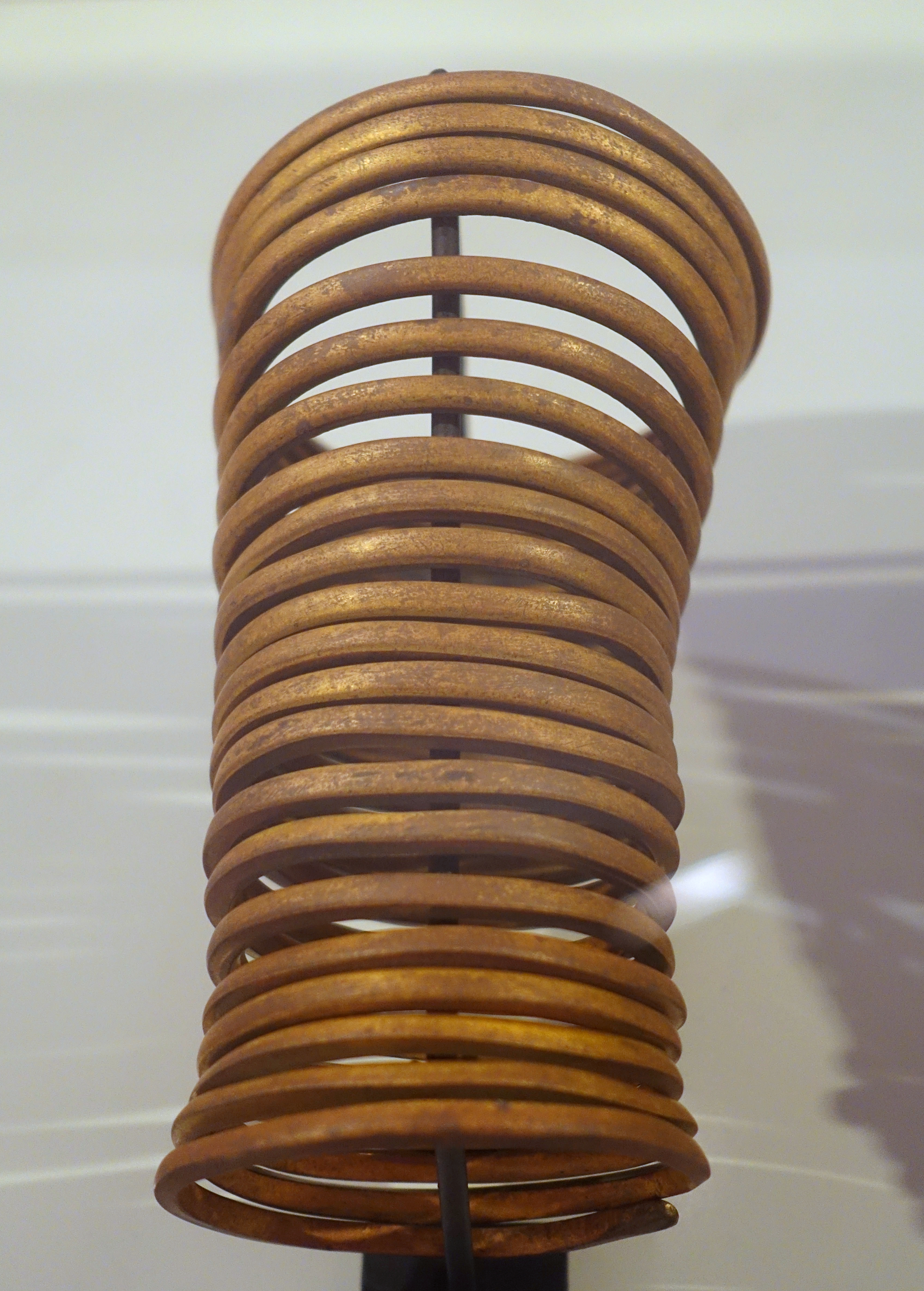 Exhibit in the Vietnamese Women's Museum, Hanoi, Vietnam.